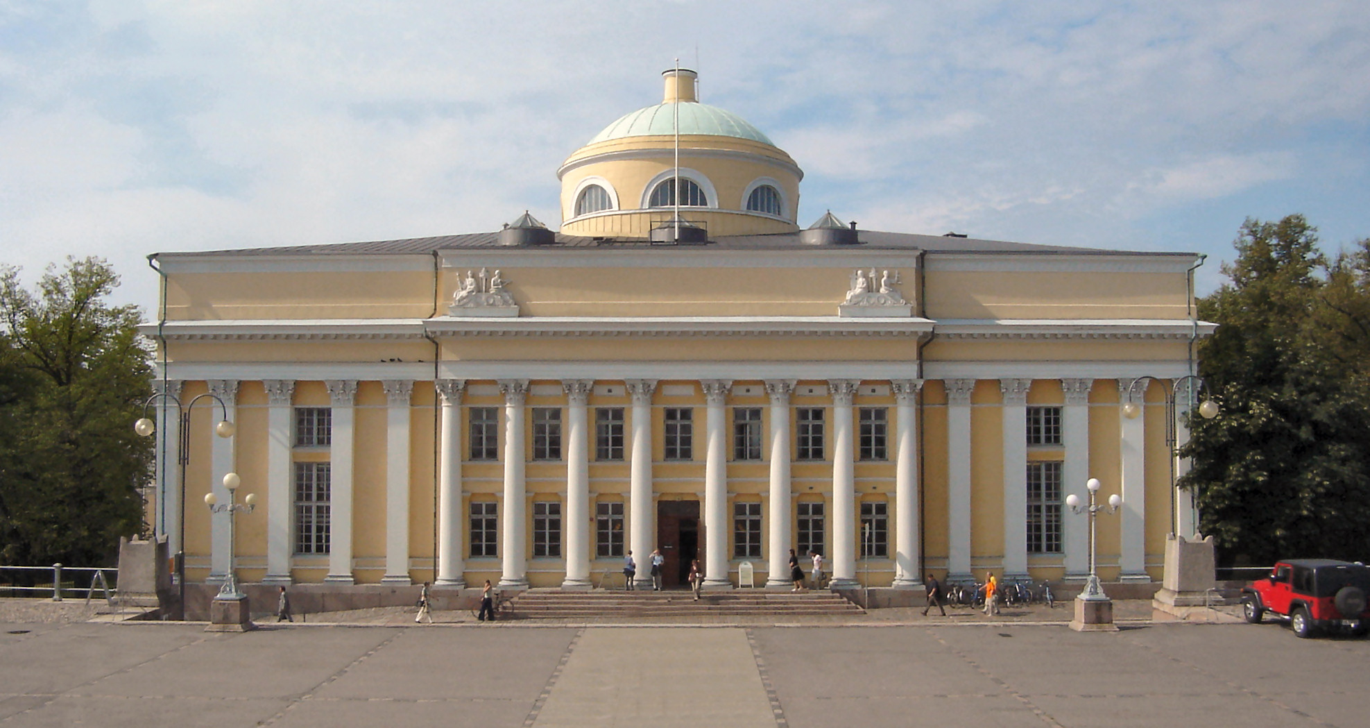 National Library of Finland (Kansalliskirjasto/Nationalbiblioteket), Helsinki, Finland. Formerly Library of the University of Helsinki. Carl Ludvig Engel, 1840.